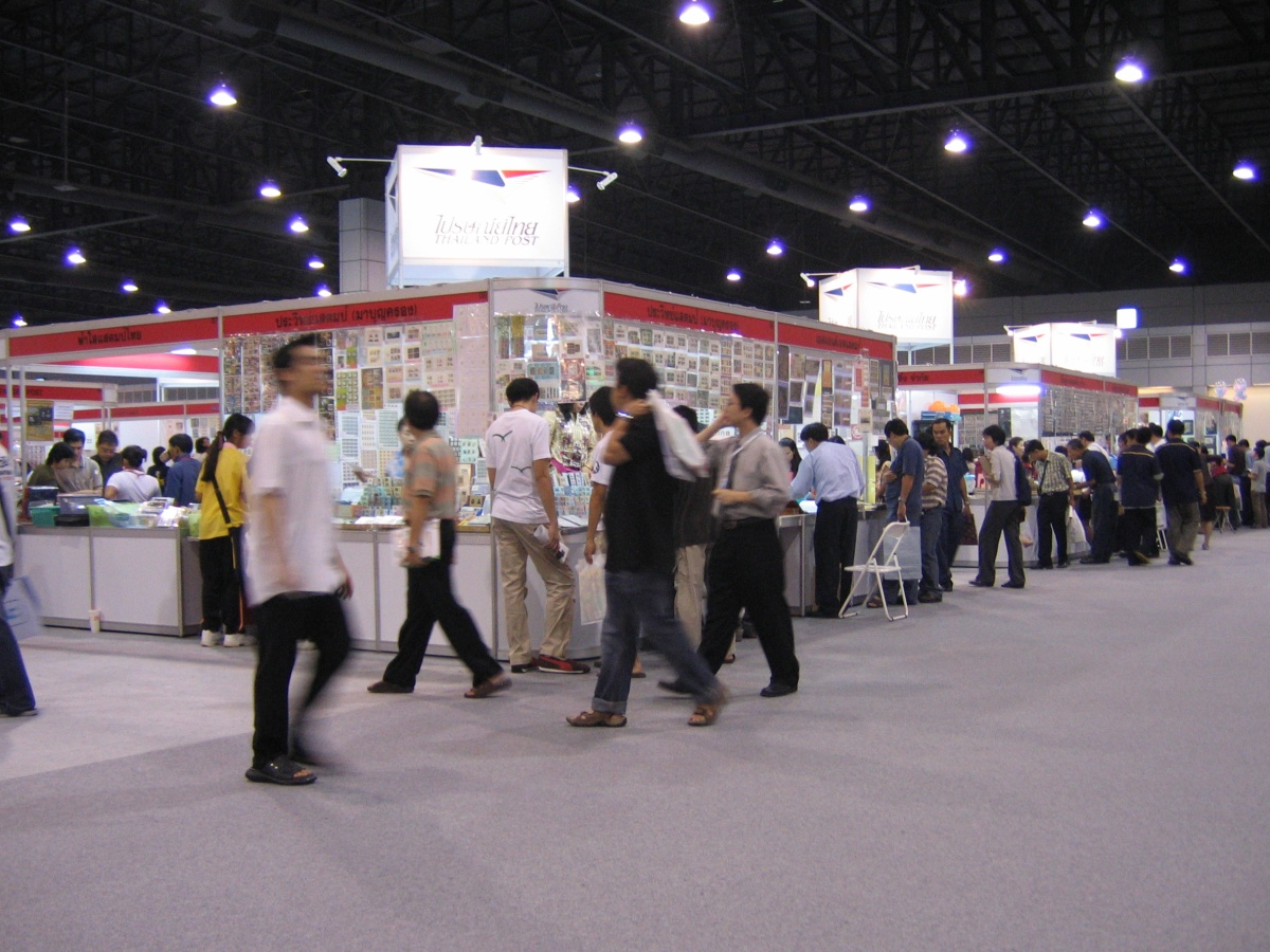 Booths of postage stamp shops at Thailand Philatelic Exhibition (THAIPEX '05) held at Impact, Muang Thong Thani, Thailand, during 3-7 August 2005.